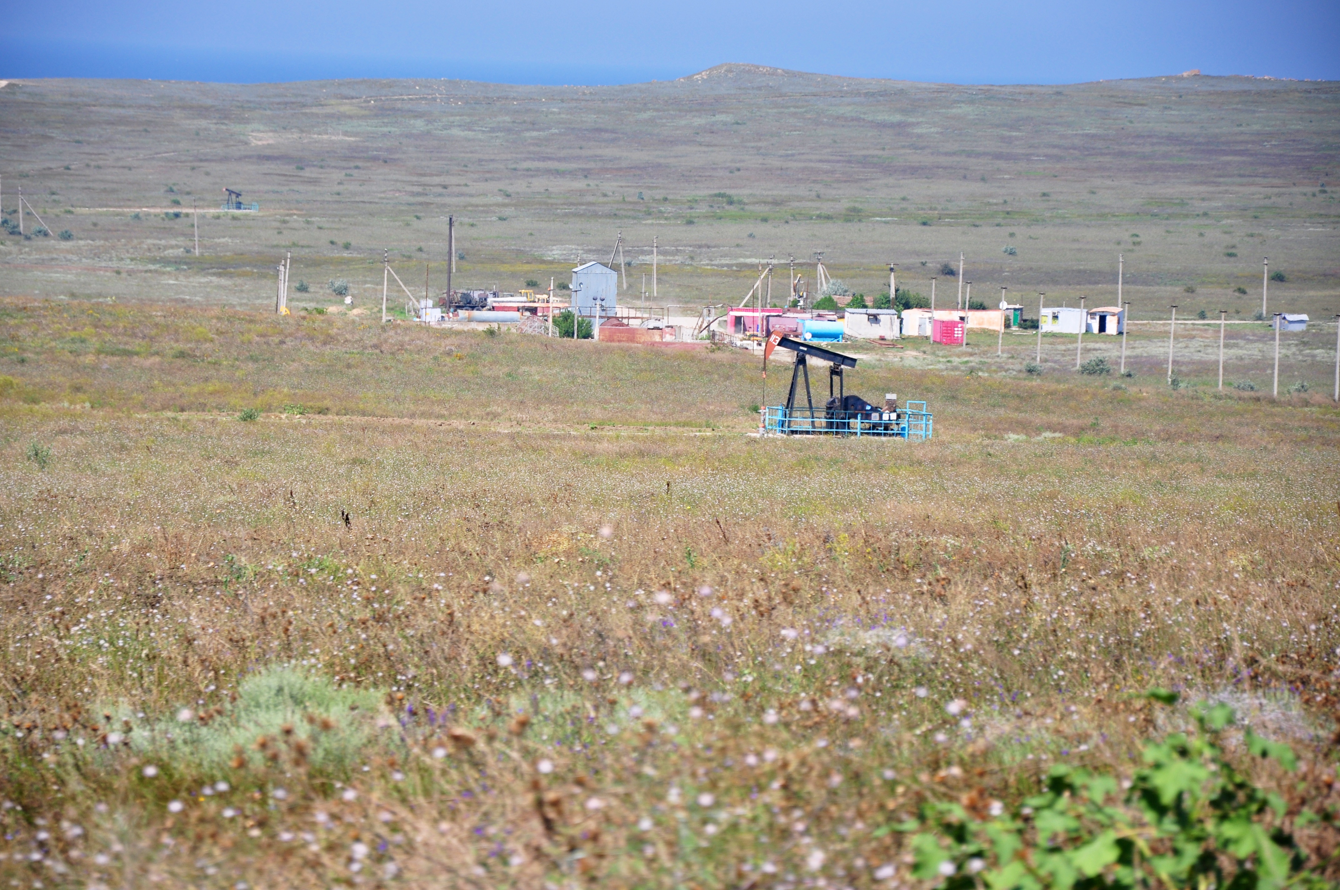 Oil wells in Kazantyp Natural Reserve, Crimea, Ukraine